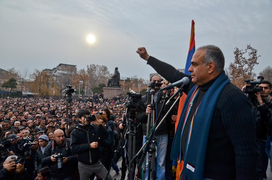 Raffi Hovannisian in Freedom Square, Yerevan, Armenia on 22 February 2013 not my own work, provided by a friend who agreed to release under PD